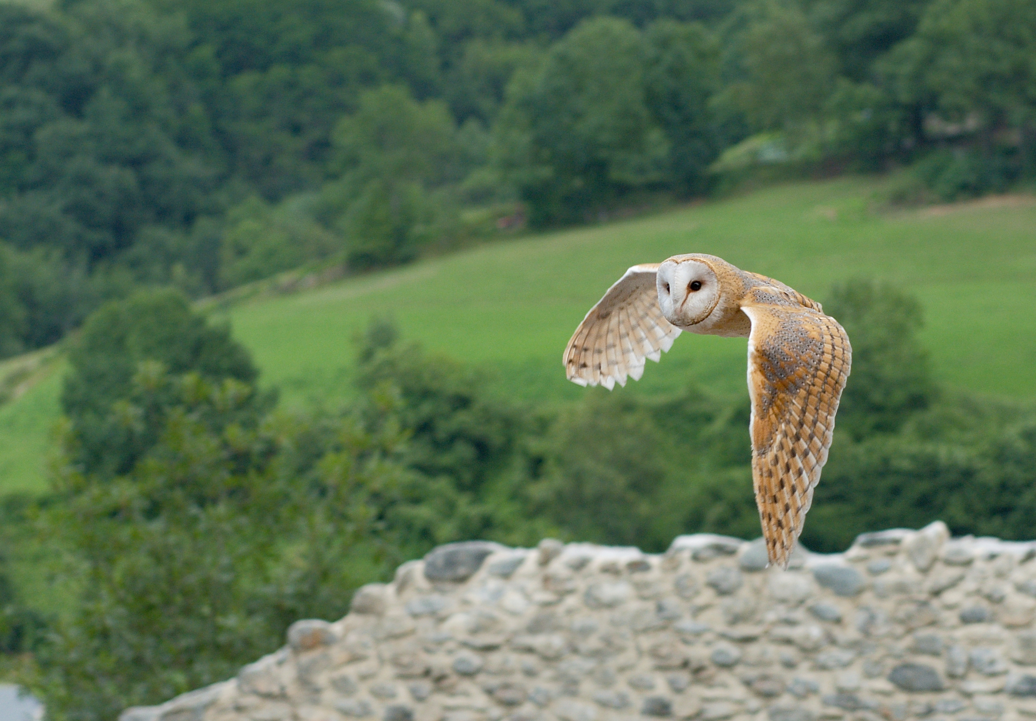 Barn Owl in flight (Tyto alba).